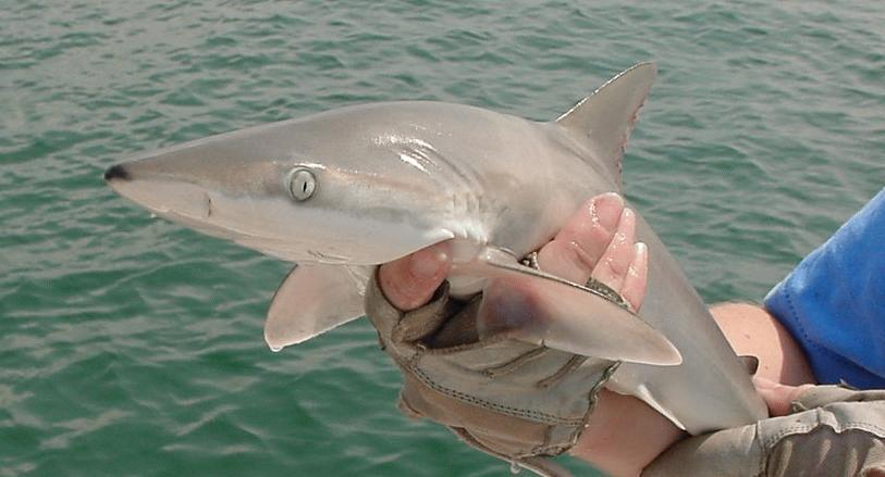 Blacknose shark (Carcharhinus acronotus)